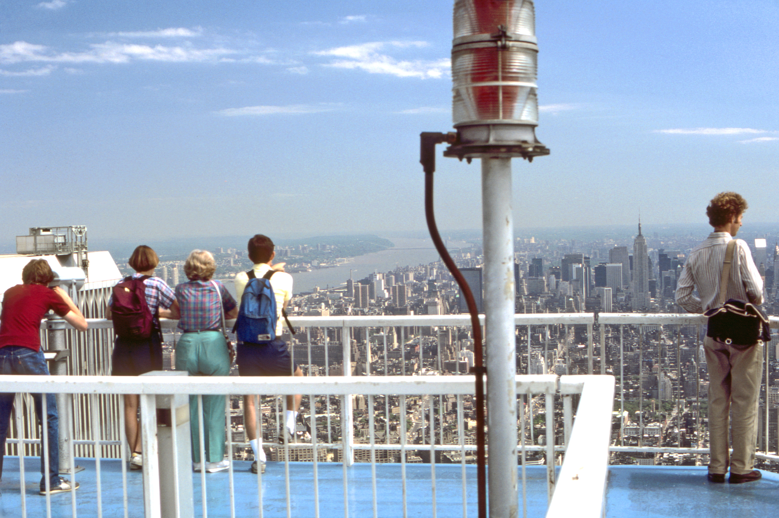 Viewers atop Two World Trade Center observation deck looking north toward mid-Manhattan.